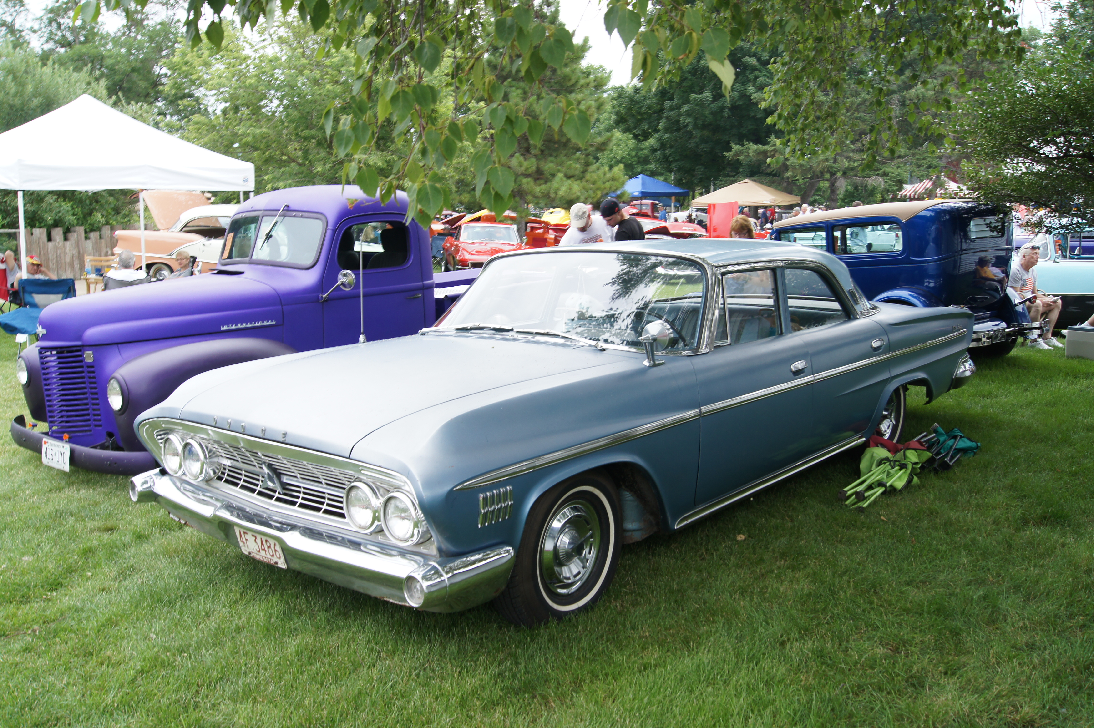 Minnesota Street Rod Association 39th Annual "Back to the Fifties" June 2012 Minnesota State Fairgrounds St. Paul MN